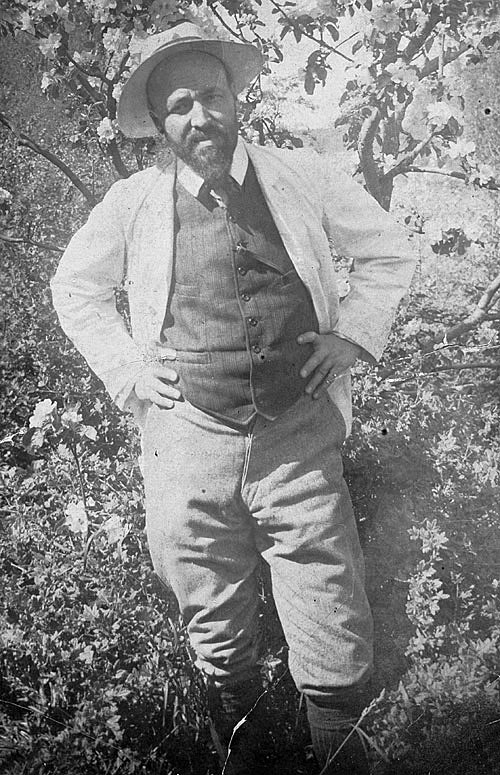 Finnish painter Hugo Simberg in his garden.